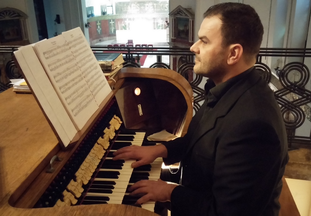 Alen Kopunović Legetin playing organ at the St. Peter's Church in Zagreb